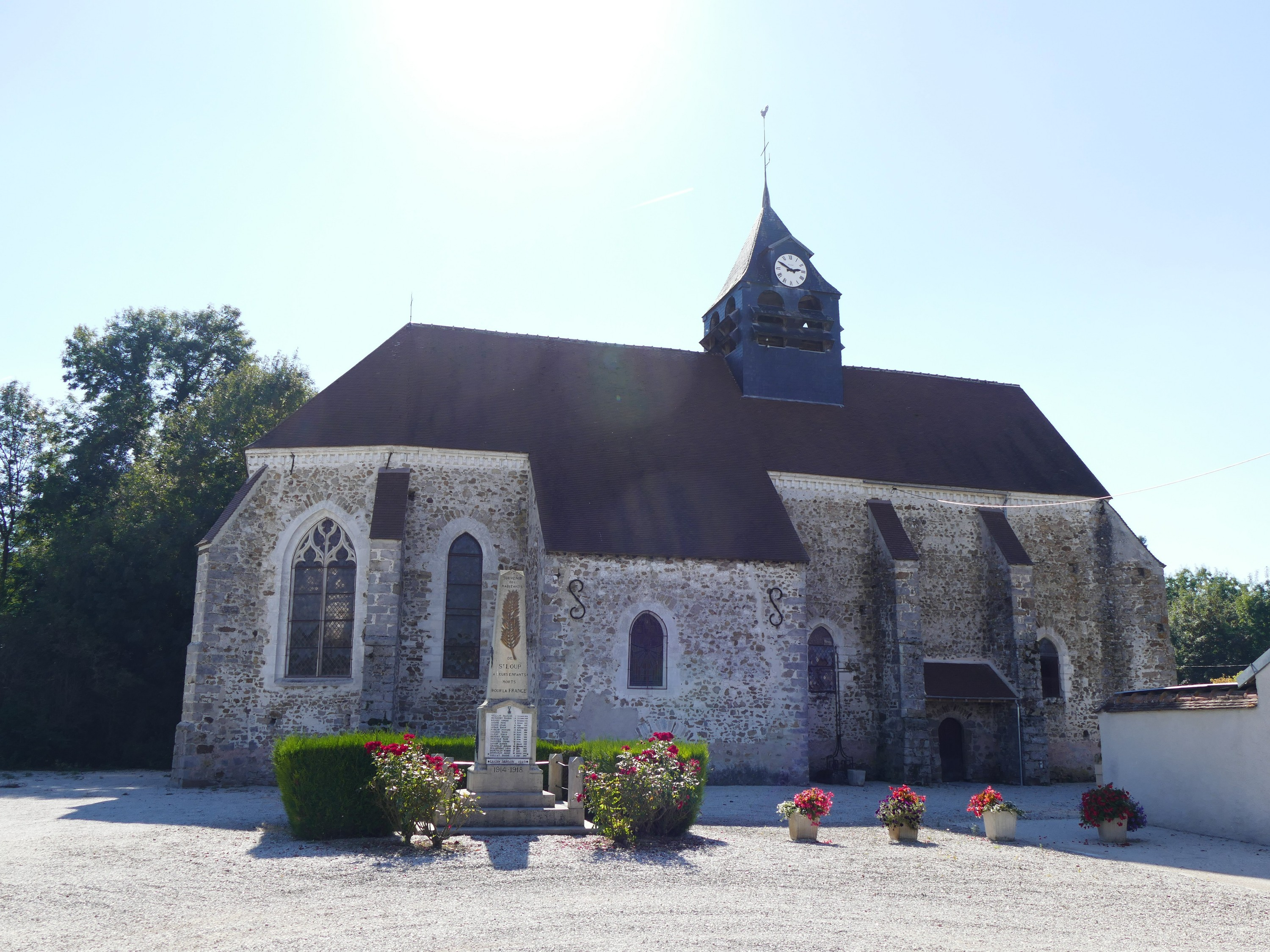 Saint-Loup-de-Troyes' church in Saint-Loup-de-Buffigny (Aube, Champagne-Ardenne, France).